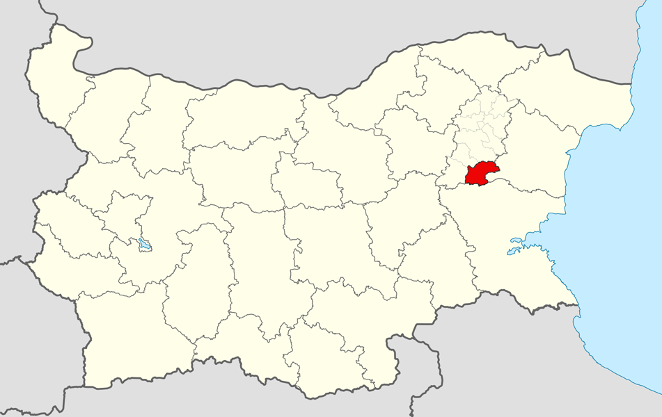 Location map of Smyadovo Municipality within Bulgaria and Shumen Province. Equirectangular projection, N/S stretching 130 %. Geographic limits of the map: N: 44.4° N S: 41.1° N W: 22.1° E E: 28.9° E